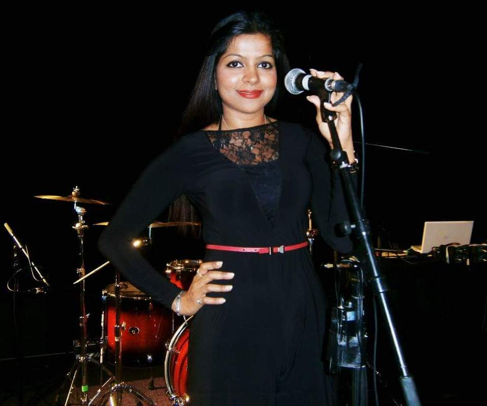 UK Based Asian Singer Priti Menon